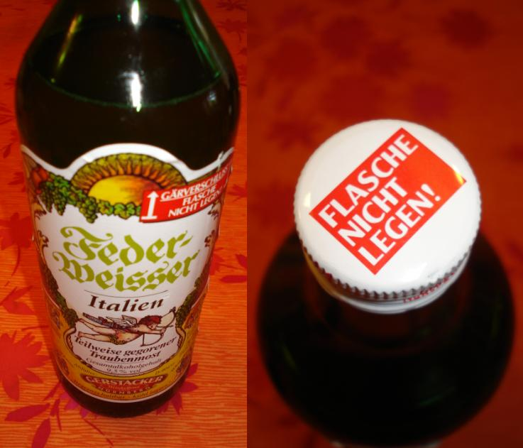 bottle of Federweisser; together with cap and sign: "Flasche nicht legen!" (engl. ~ don't lay down bottle)